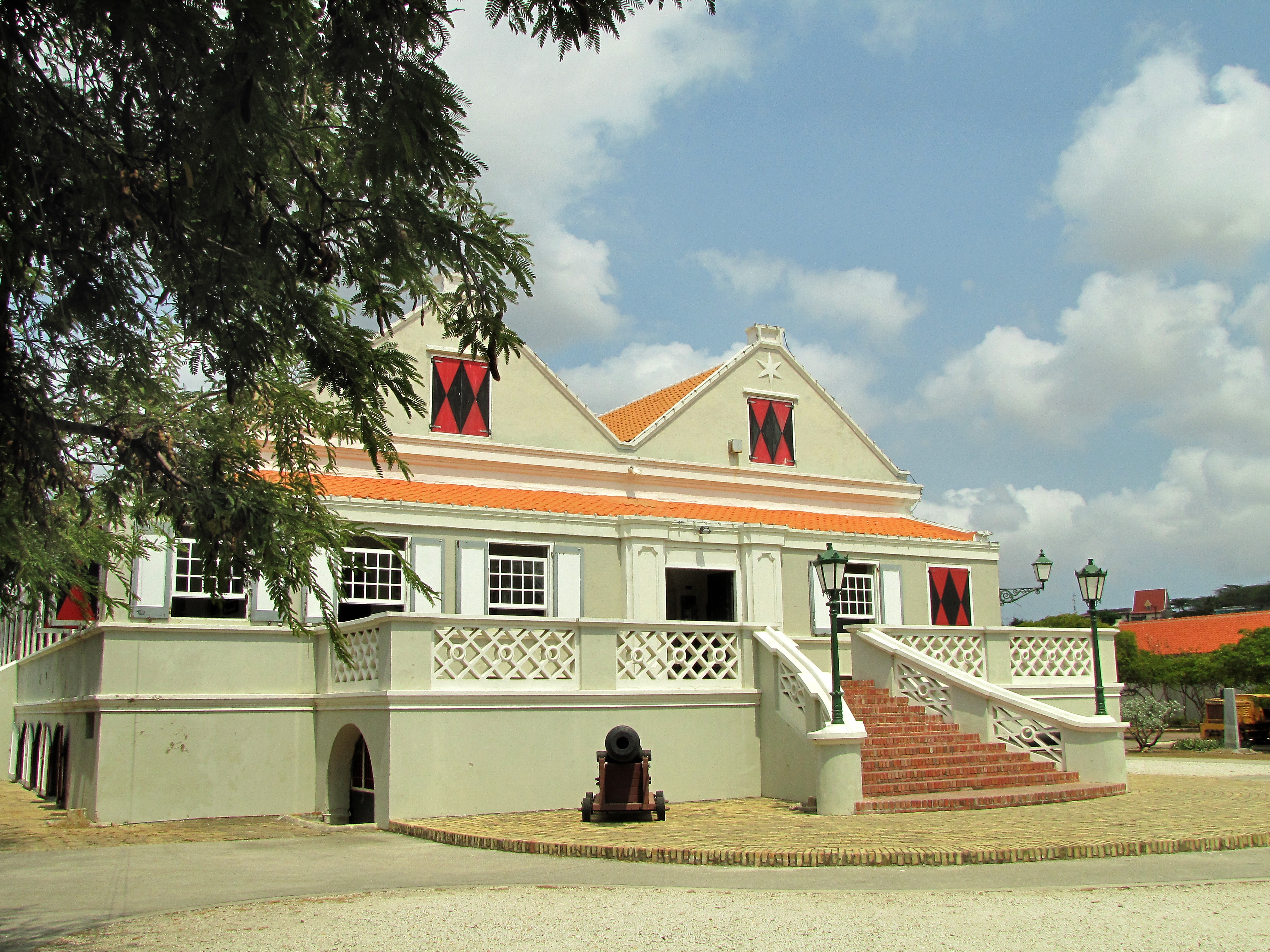 The main building of the Curaçao Museum in Willemstad, Dutch Caribbean.